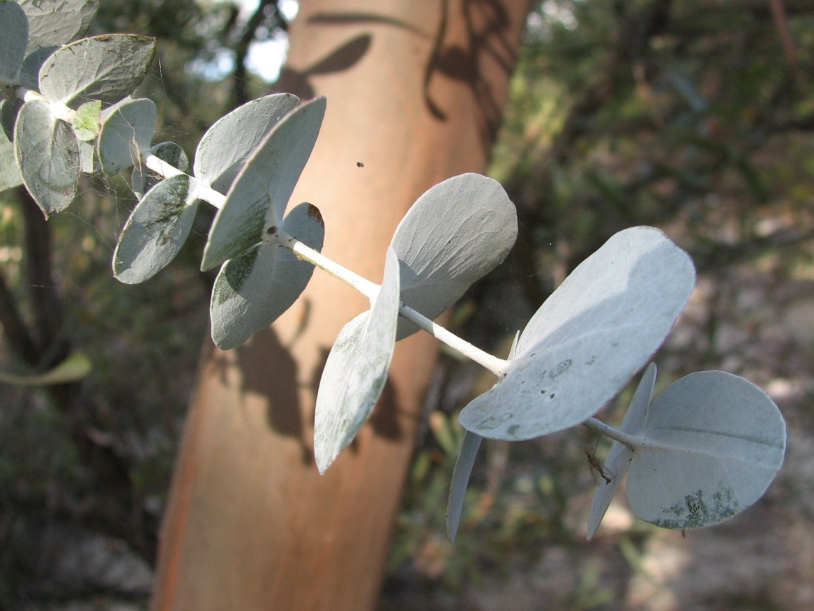 Eucalyptus perriniana (cultivated, labelled) Maranoa Gardens, Balwyn, Victoria, Australia